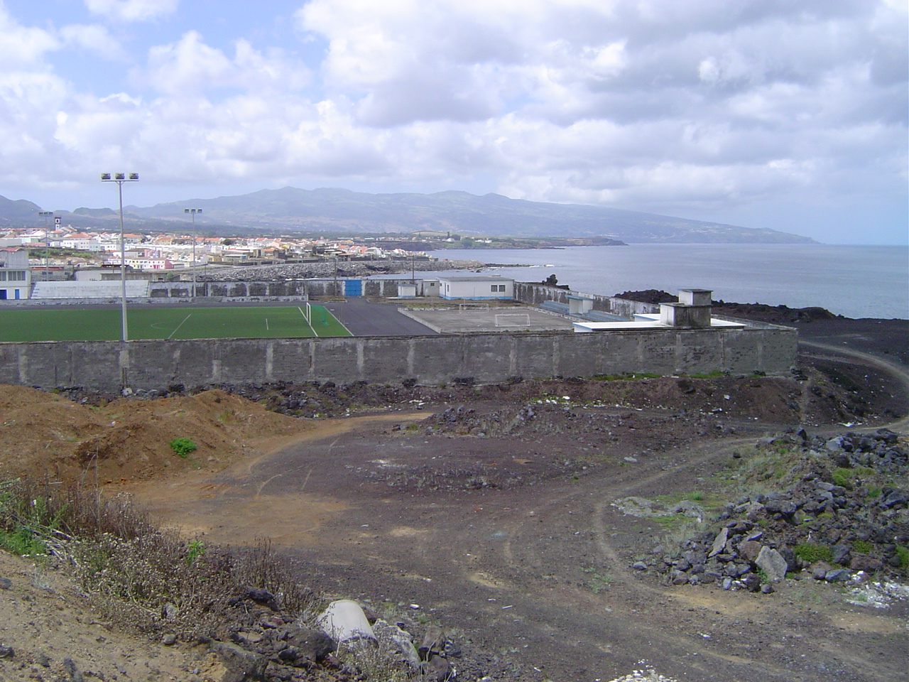 Campo de Jogos Bom Jesus - degraded seafront. The stadium is used by Clube Desportivo Rabo de Peixe, a Portuguese football club based in Rabo de Peixe, Ribeira Grande on the island of São Miguel in the Azores.